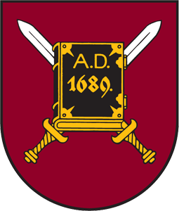 Coat of arms of the city of Alūksne, Latvia.